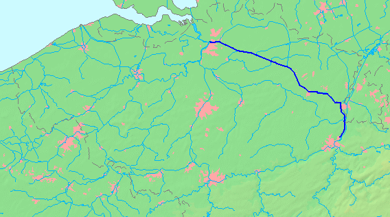 Location of a waterway (river/canal) in Belgium